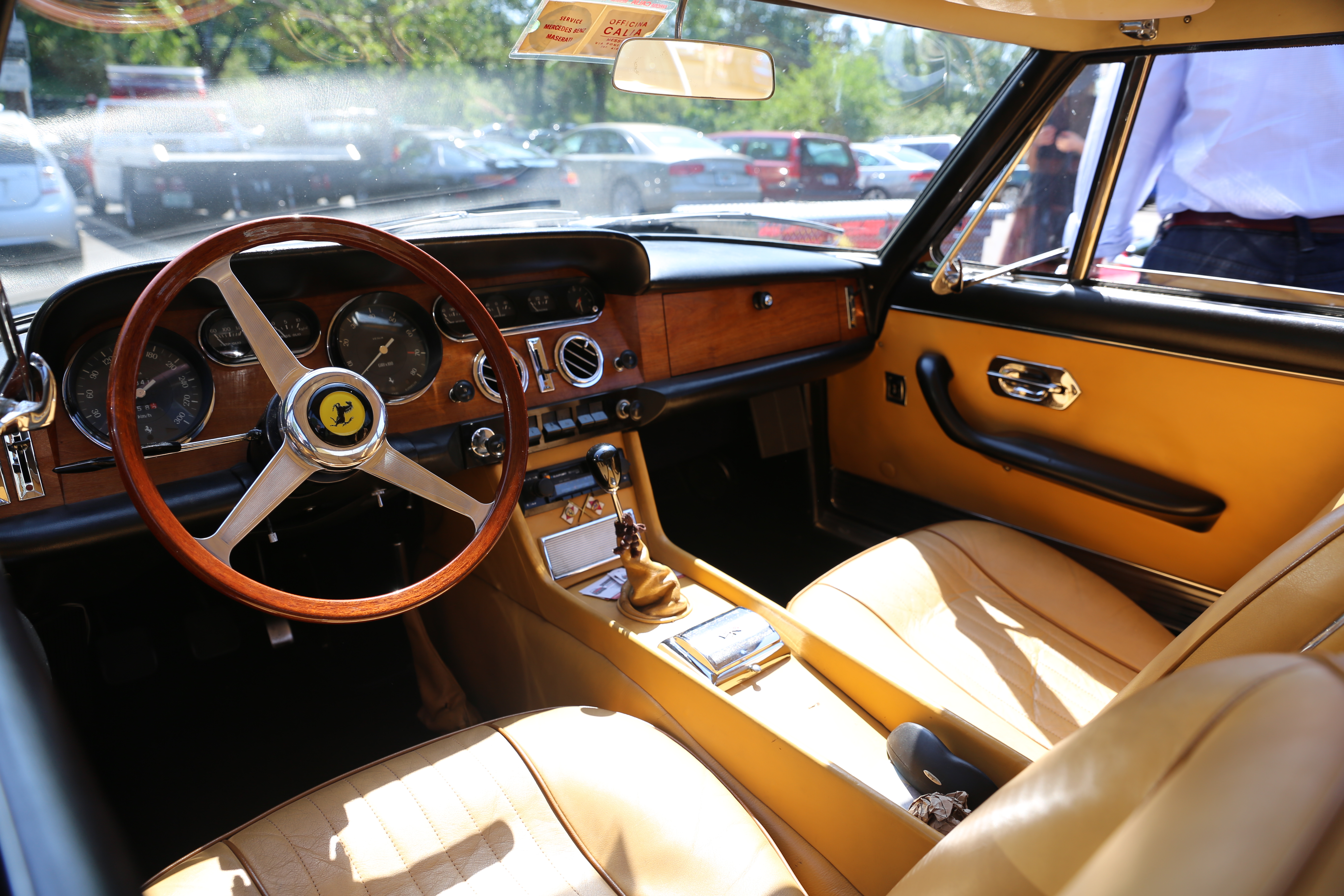 Interior of sixties' Ferrari 330 GT 2+2 coupé, second series. In the parking lot of the 2013 Greenwich Concours d'Elegance.